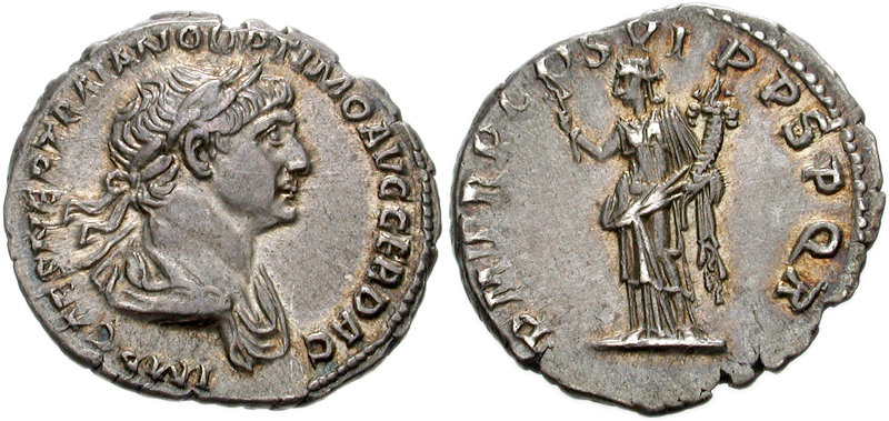 Traianus. AD 98-117. AR Denarius (20mm, 3.23 g, 6h). Rome mint. Struck AD 115-116. IMP CAES NER TRAIANO OPTIMO AVG GER DAC Laureate and draped bust right P M TR P COS VI PP S P Q R Felicitas standing left, holding caduceus and cornucopia. RIC II 343; RSC 278. EF, attractively toned.